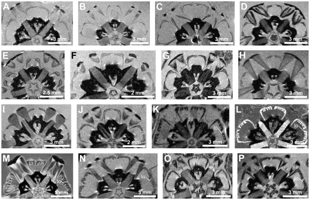 Frilled protractor muscles can only be found in sea urchin species of the families Toxopneustidae, Echinometridae, and Strongylocentrotidae (K–P). See Fig. 6 for a phylogeny of the Echinoidea, while Table 3 lists character distribution in all 49 echinacean species analyzed in this study. (A) Stomopneustes variolaris (Stomopneustidae). (B) Arbacia dufresnii (Arbaciidae). (C) Parasalenia gratiosa (Parasaleniidae). (D) Temnopleurus toreumaticus and (E) Pseudechinus magellanicus (Temnopleuridae). (F) Trigonocidaris albida (Trigonocidaridae). (G) Polyechinus agulhensis and (H) Sterechinus neumayeri (Echinidae). (I) Parechinus angulosus and (J) Psammechinus microtuberculatus (Parechinidae). (K) Toxopneustes pileolus and (L) Sphaerechinus granularis (Toxopneustidae). (M) Echinometra lucunter and (N) Heterocentrotus mammilatus (Echinometridae). (O) Pseudocentrotus depressus and (P) Hemicentrotus pulcherrimus (Strongylocentrotidae). (A–E), (G–K), and (N–P) based on MRI datasets with 50×50×200 µm resolution. (F) based on a MRI dataset with 32 µm isotropic voxel resolution. (L, M) based on MRI datasets with 78×78×500 µm resolution. lo = lobe.